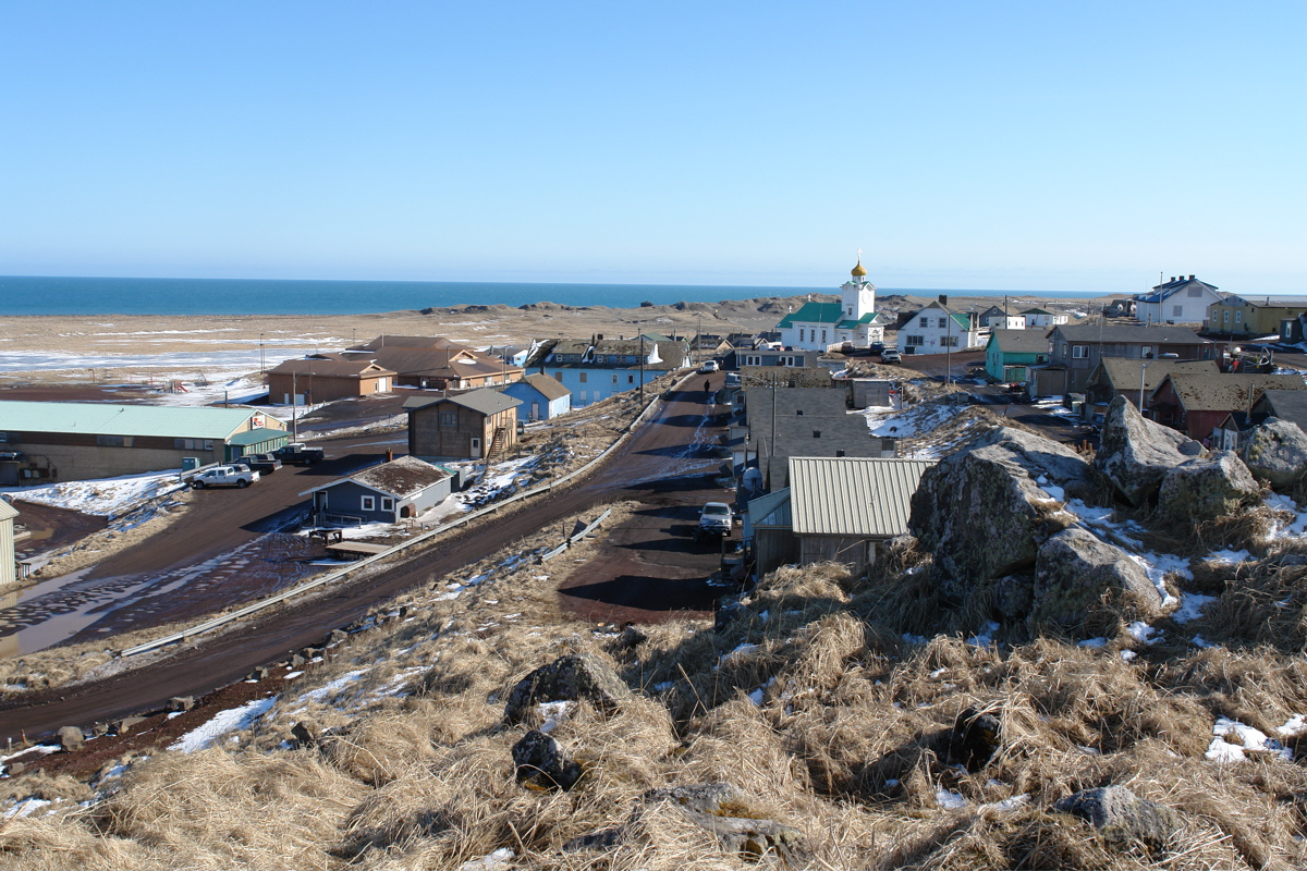 View of the village on Saint Paul Island on a sunny April day, showing Saints Peter and Paul Russian Orthodox Church and a slice of brilliantly turquoise Bering Sea.